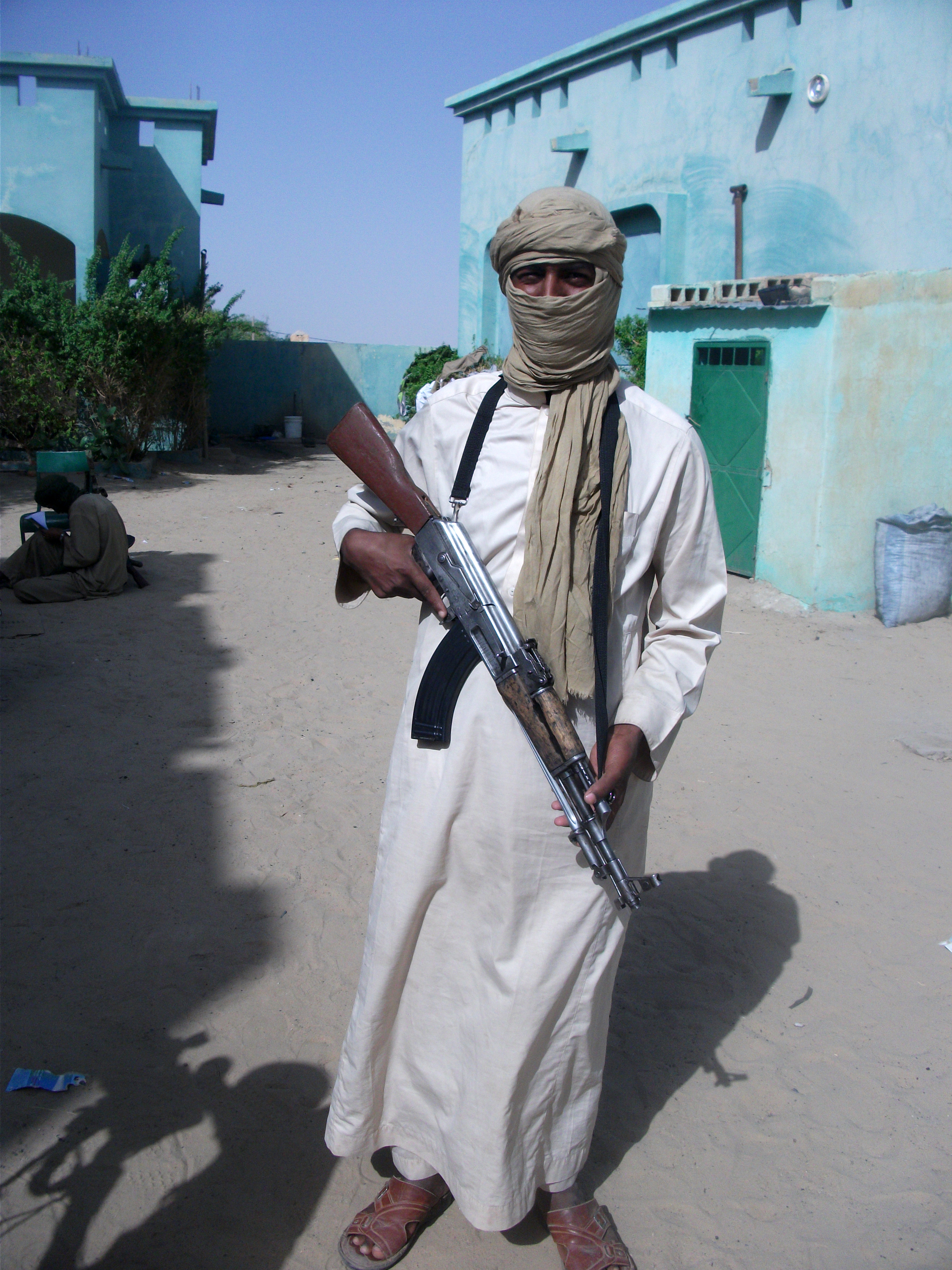 A newly-created AQIM Touareg brigade aims to control a large area of the Sahel. كتيبة الطوارق الجديدة التي شكلها تنظيم القاعدة في المغرب الإسلامي تهدف إلى السيطرة على منطقة الساحل. Une nouvelle brigade d'AQMI, dirigée par des Touaregs, a pour ambition de contrôler un vaste secteur du Sahel.